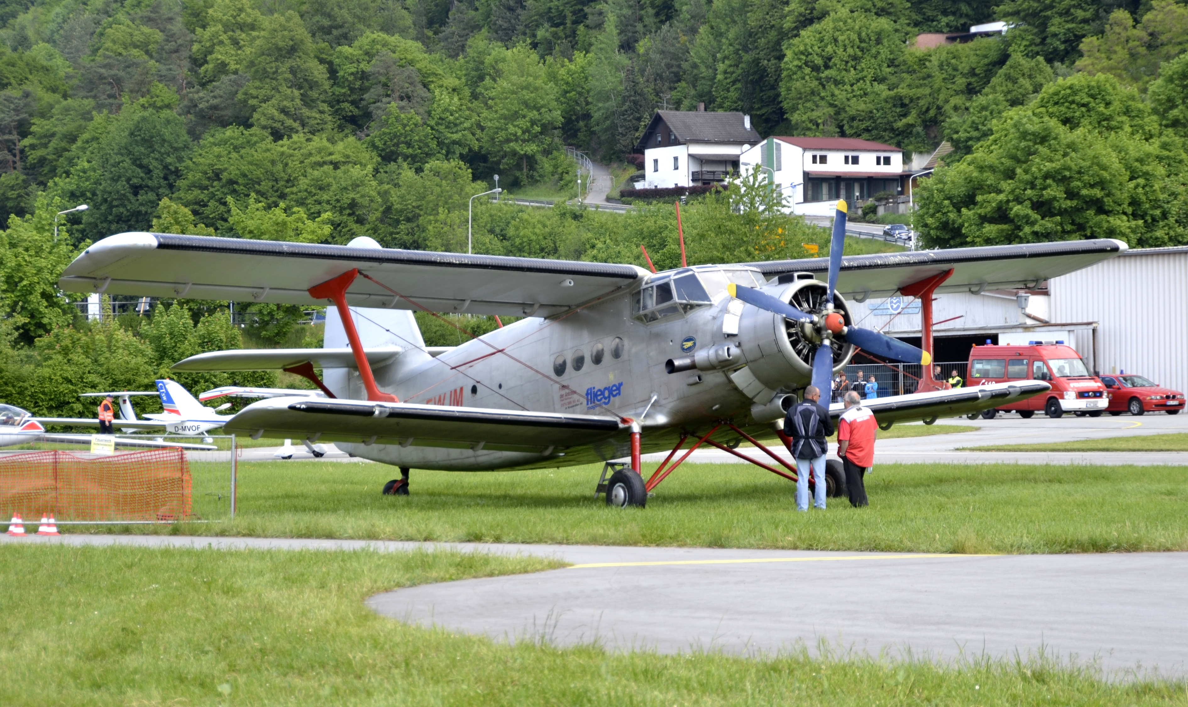 An Antonov An-2 (D-FWJM) at the air show Flughallenfest Vilshofen 2012.